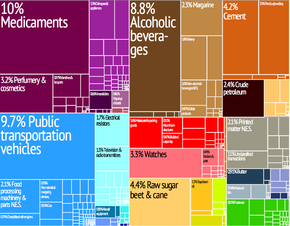 Export Trading Treemap. From MIT/Harvard Atlas of Economic Complexity